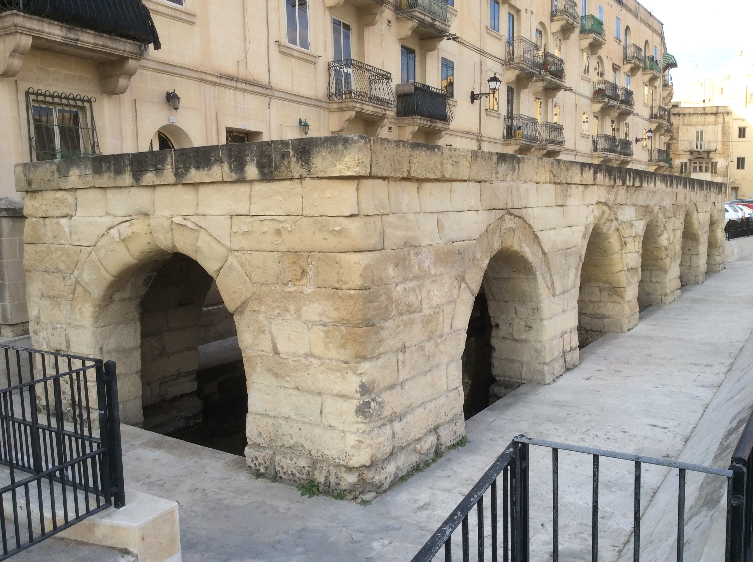 Wash-house This media is about Maltese cultural property with inventory number 00018.